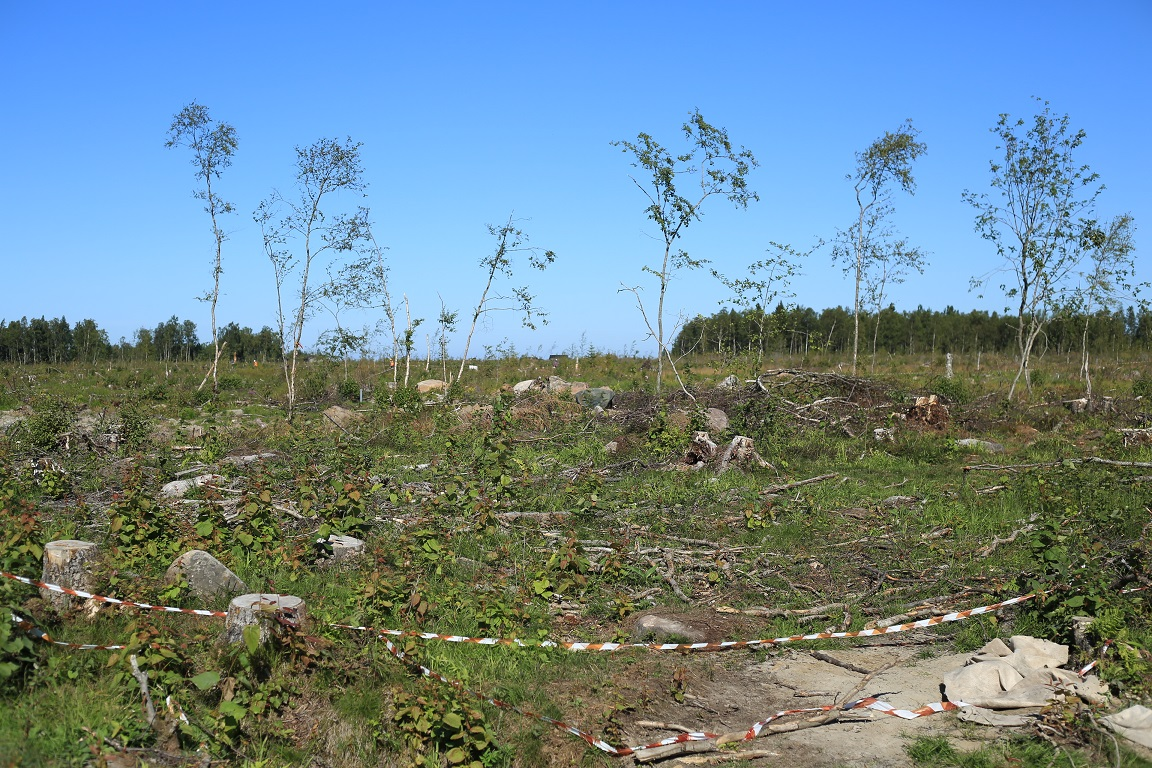 Hanhikivi 1 nuclear power plant contruction site, Pyhäjoki, Finland. Image by anti-nuclear activist network Hyökyaalto.